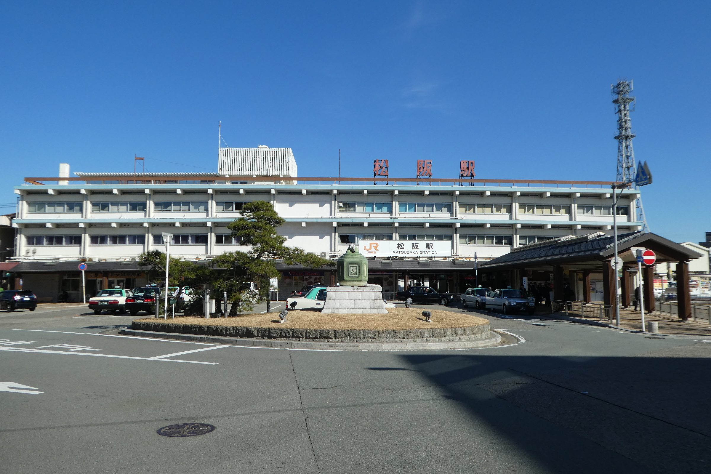 Matsusaka Station in Mie Prefecture, Japan